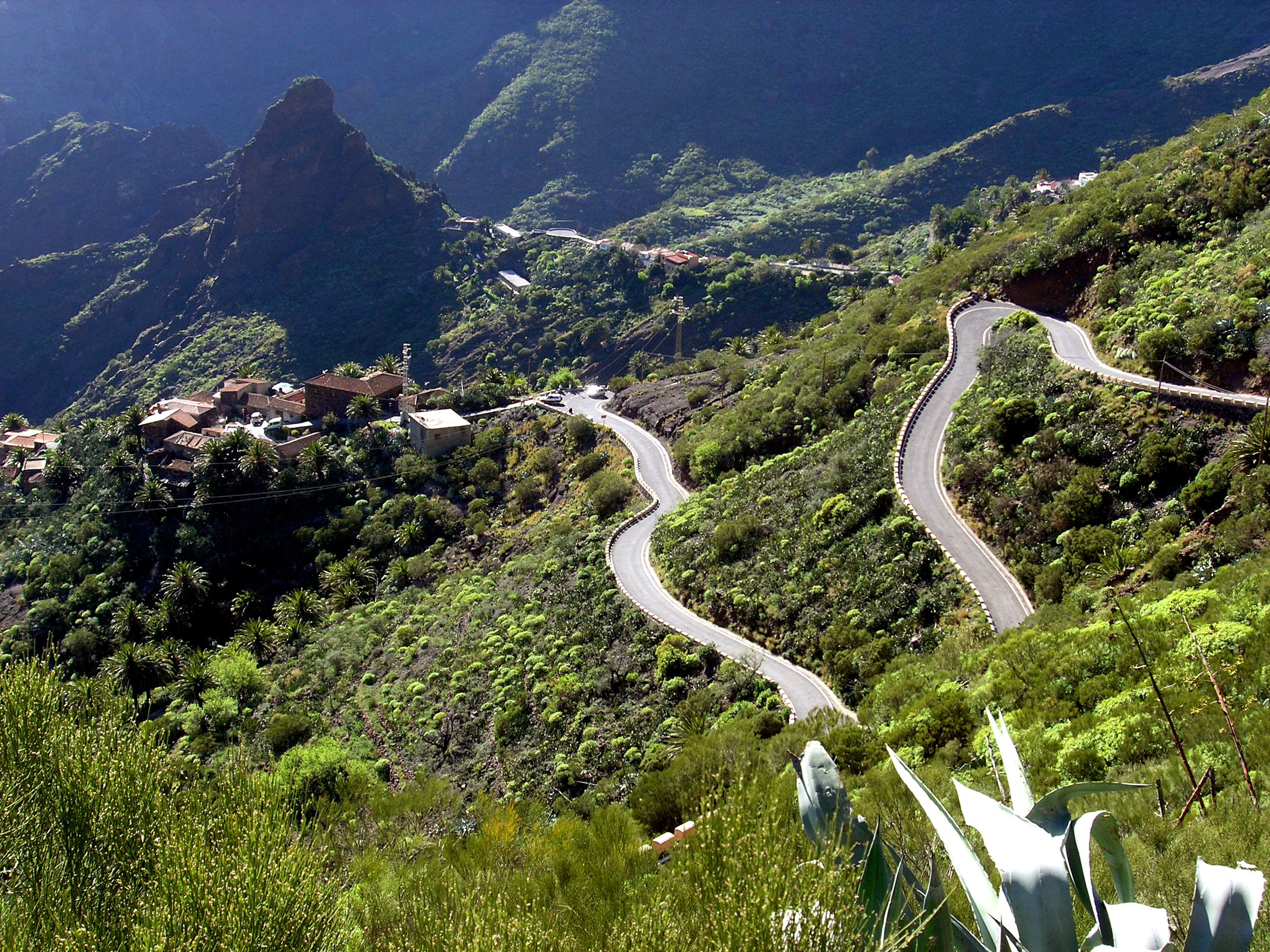 View on Masca, Tenerife